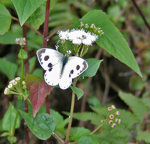 Indian Cabbage White Pieris canidia at Samsing in Darjeeling district of West Bengal, India.